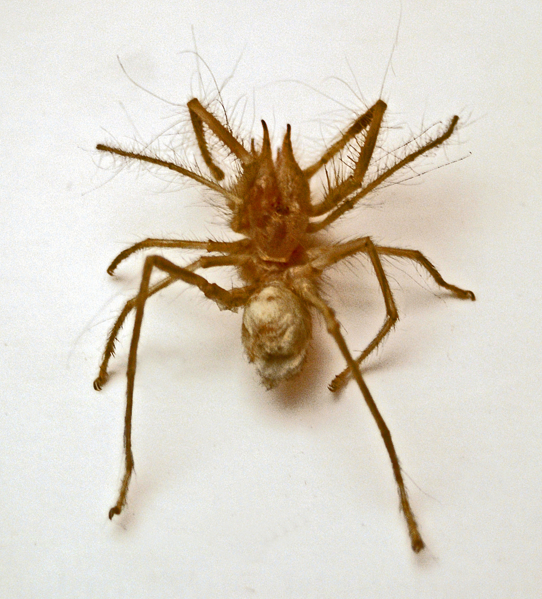 Galeodes blanchardi from Lybia. On display at the Museo Civico di Storia Naturale di Milano